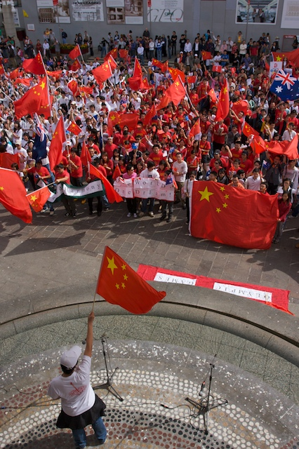 Pro-China Olympic rally in Forrest Place in Perth